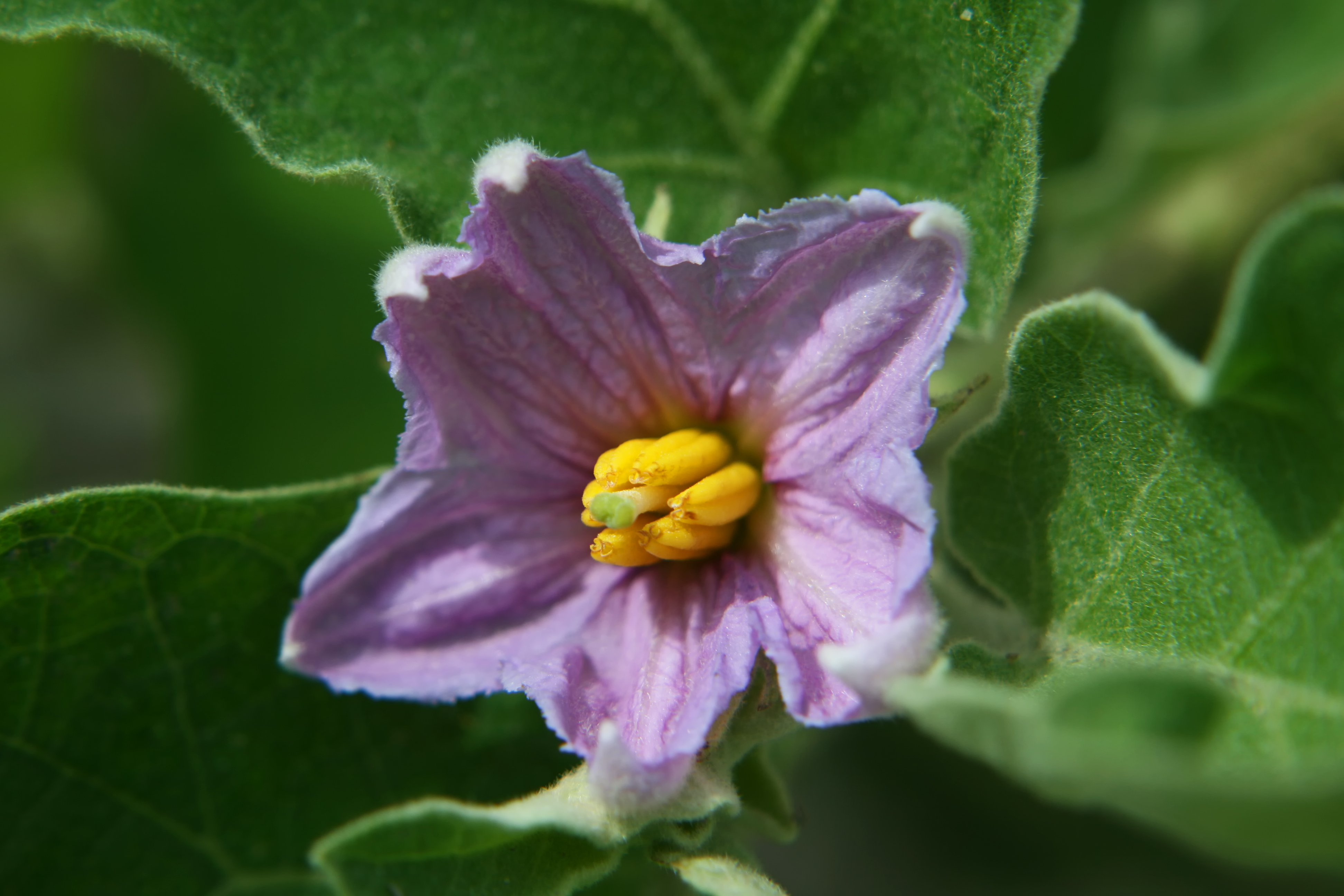 Flower of an eggplant (Solanum melongena).